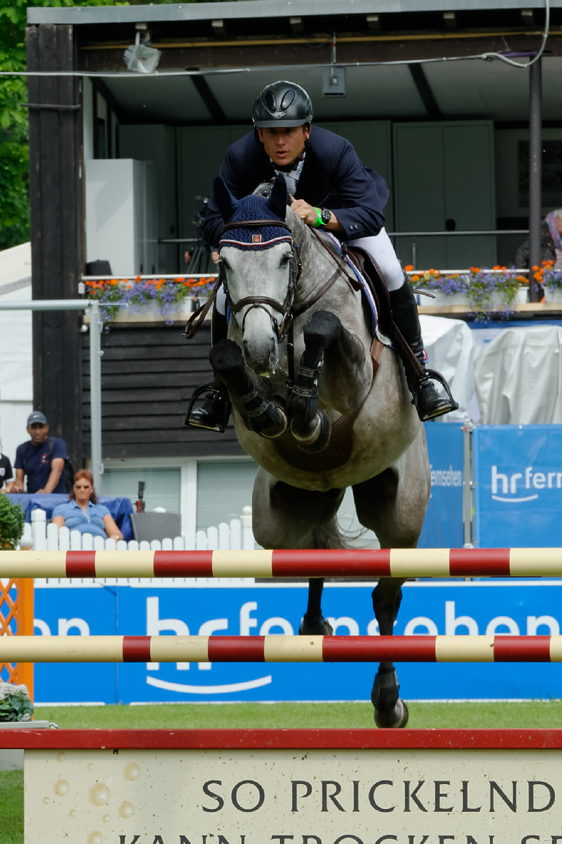 CSIYH* int. Springprüfung nach Strafpunkten und Zeit Internationales Pfingstturnier Wiesbaden 2015 The making of this document was supported by the Community-Budget of Wikimedia Germany.